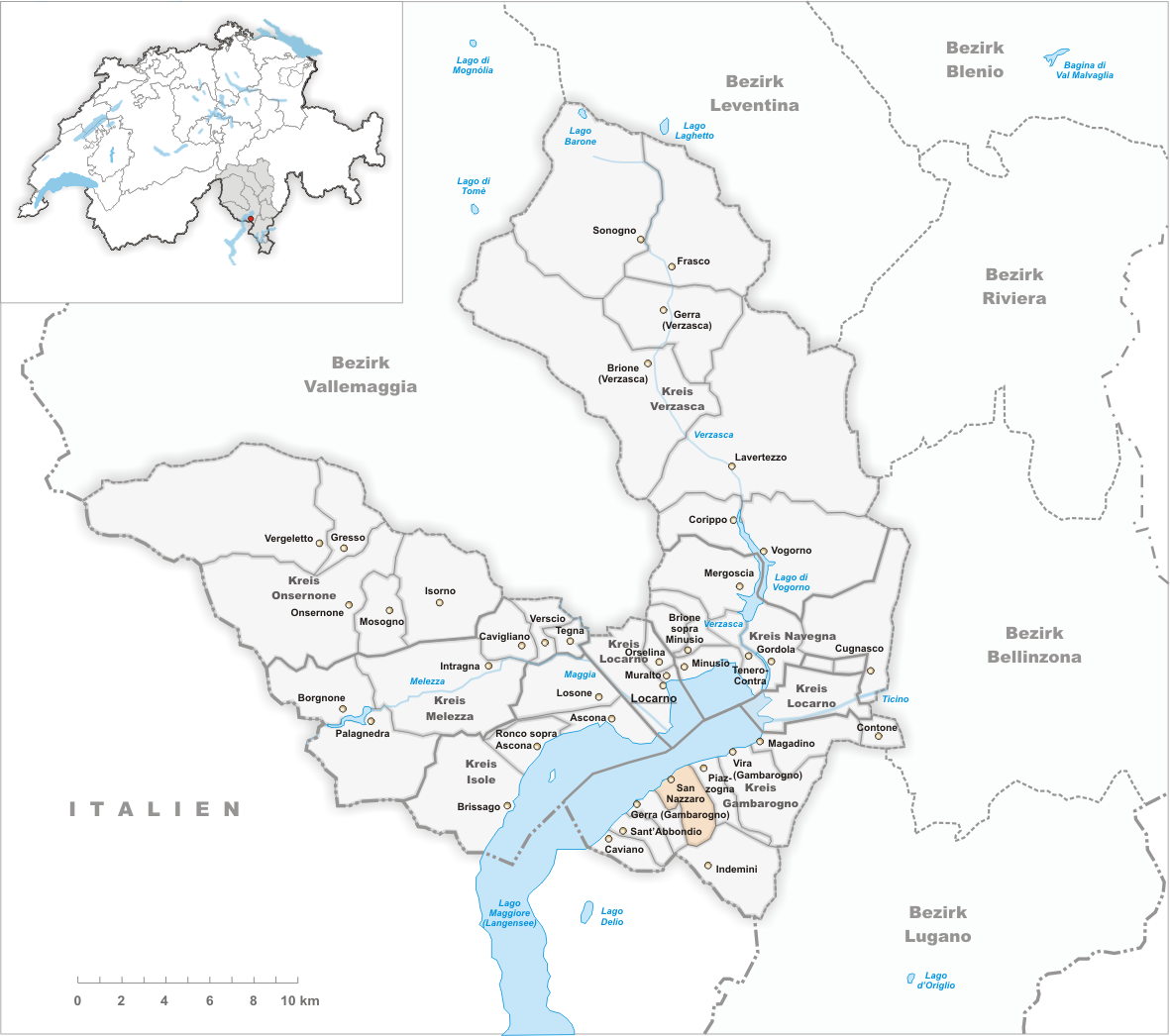 Municipality San Nazzaro